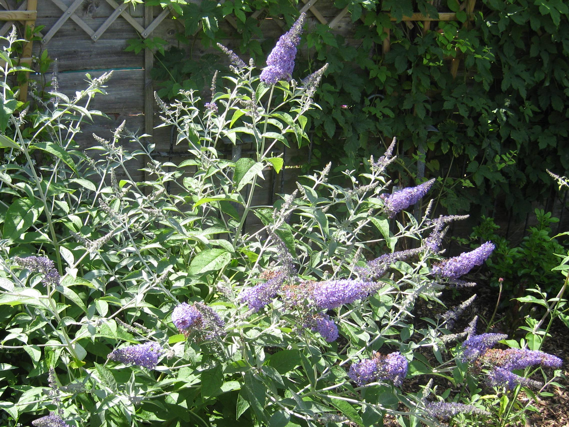 Photo of Buddleja hybrid cultivar 'Loch Inch' in author's garden in the UK.